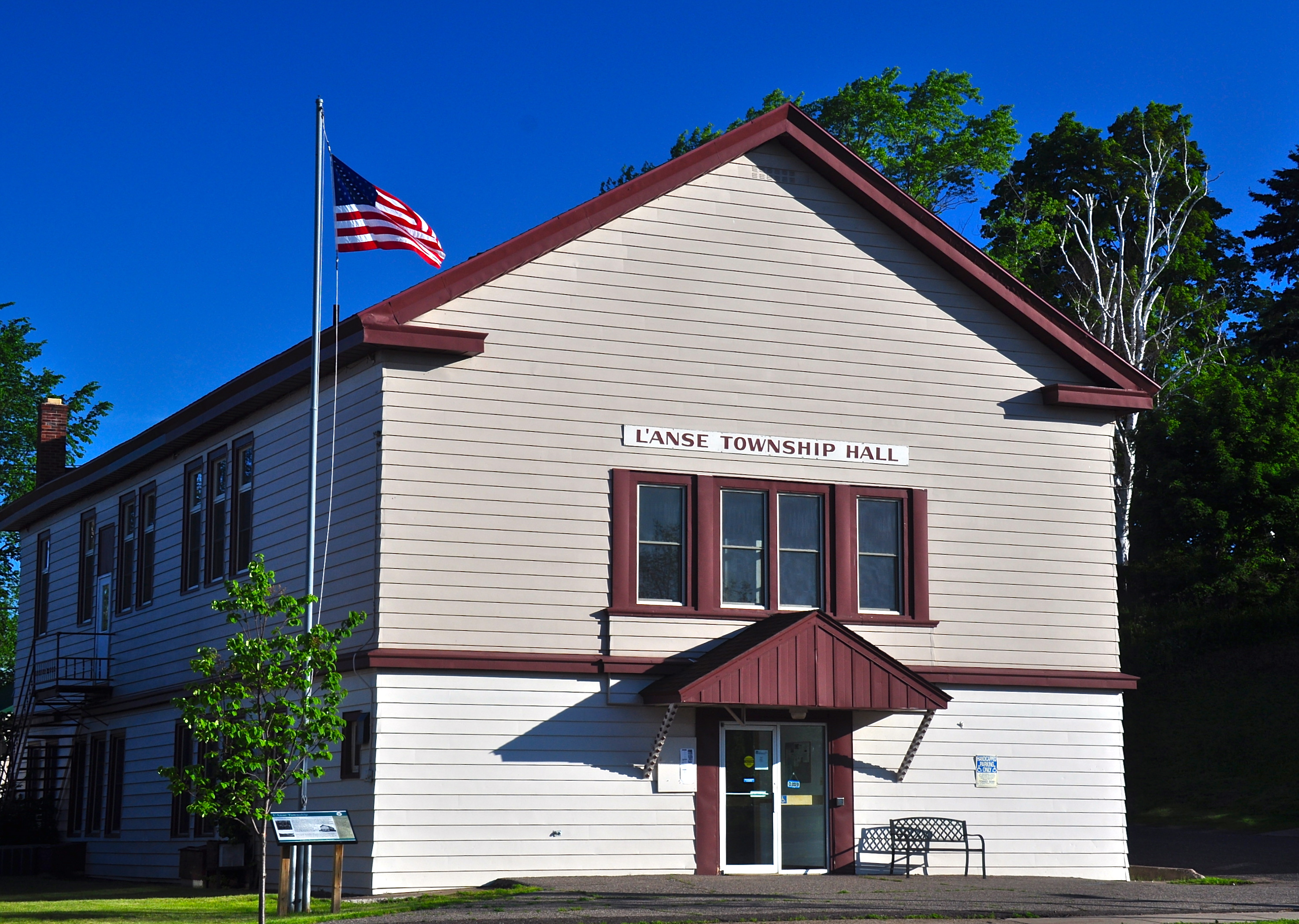 L'Anse Township Hall located in the village of L'Anse, Baraga County, Michigan.